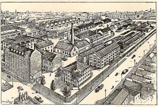 Alfred Benzons Fabrikker at Halmtorvet in Copenhagen, Denmark